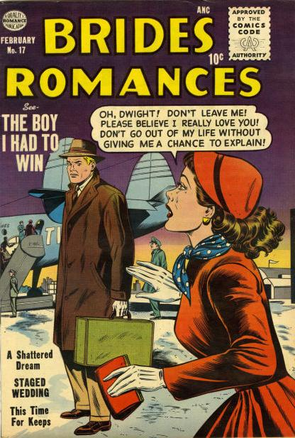 Cover art of Brides Romances #17, February 1956